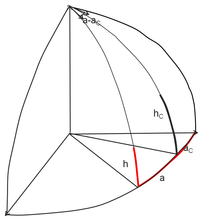 The orientation of the solar panel as well as the orientation of the sun are given, so that the angle of incidence can be calculated.